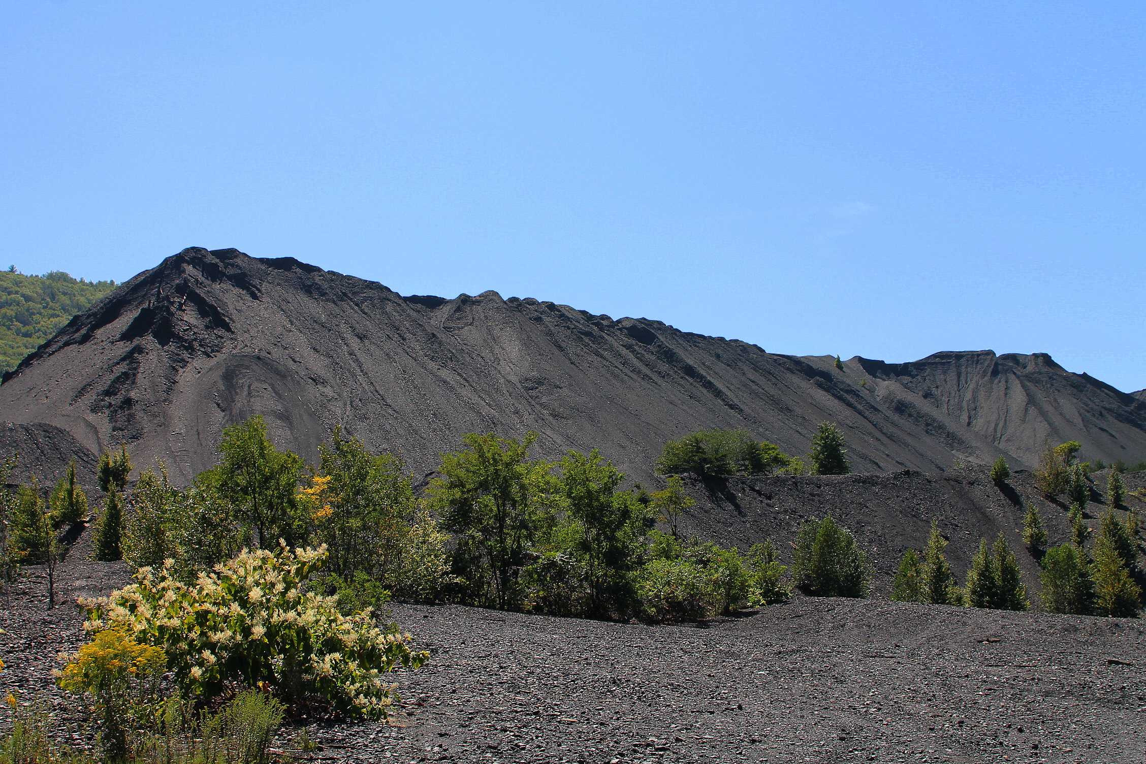 A nearly 200-foot high mountain of coal waste near Trevorton, Pennsylvania